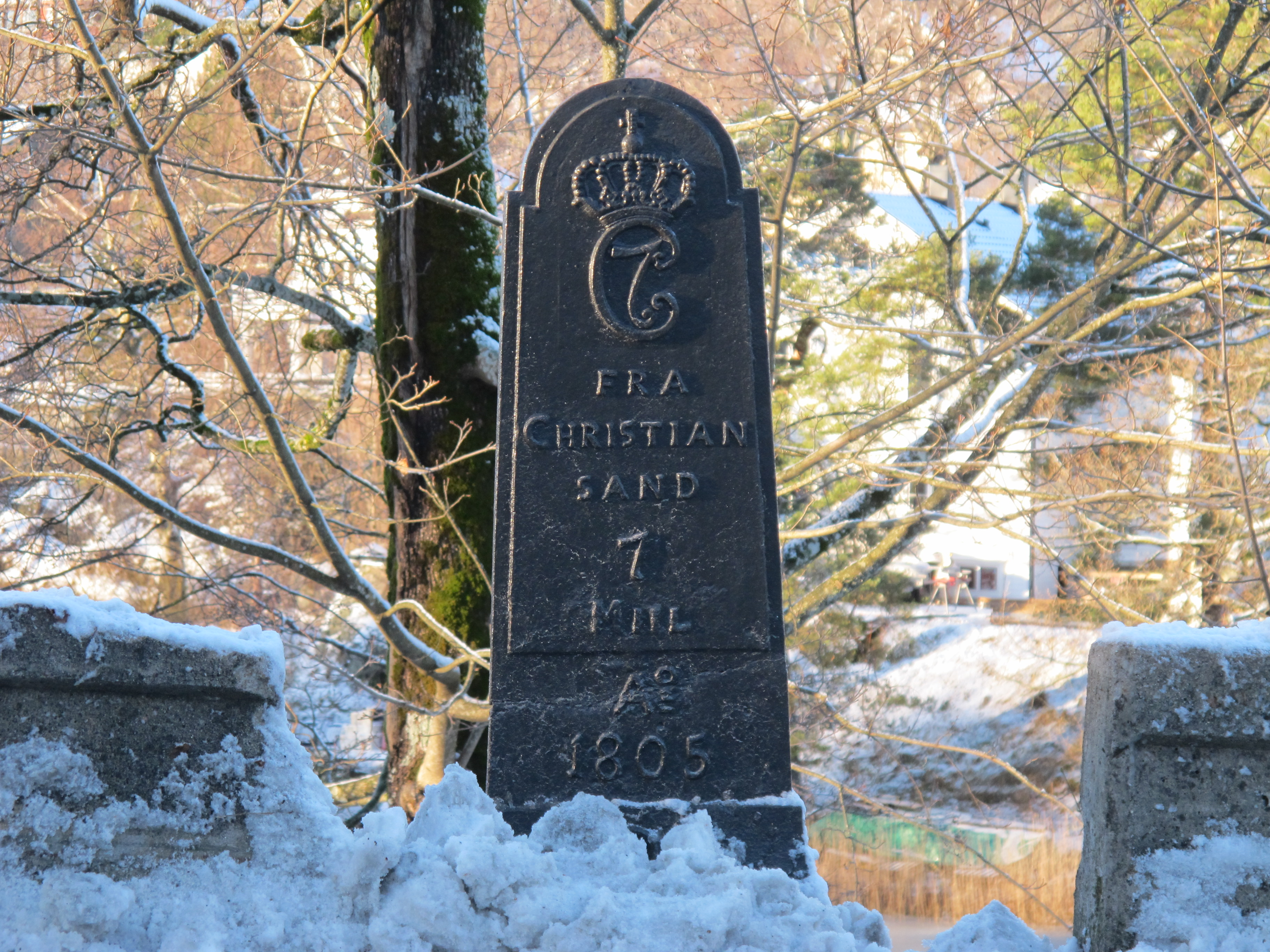 MileStone along Vestlandske hovedvei